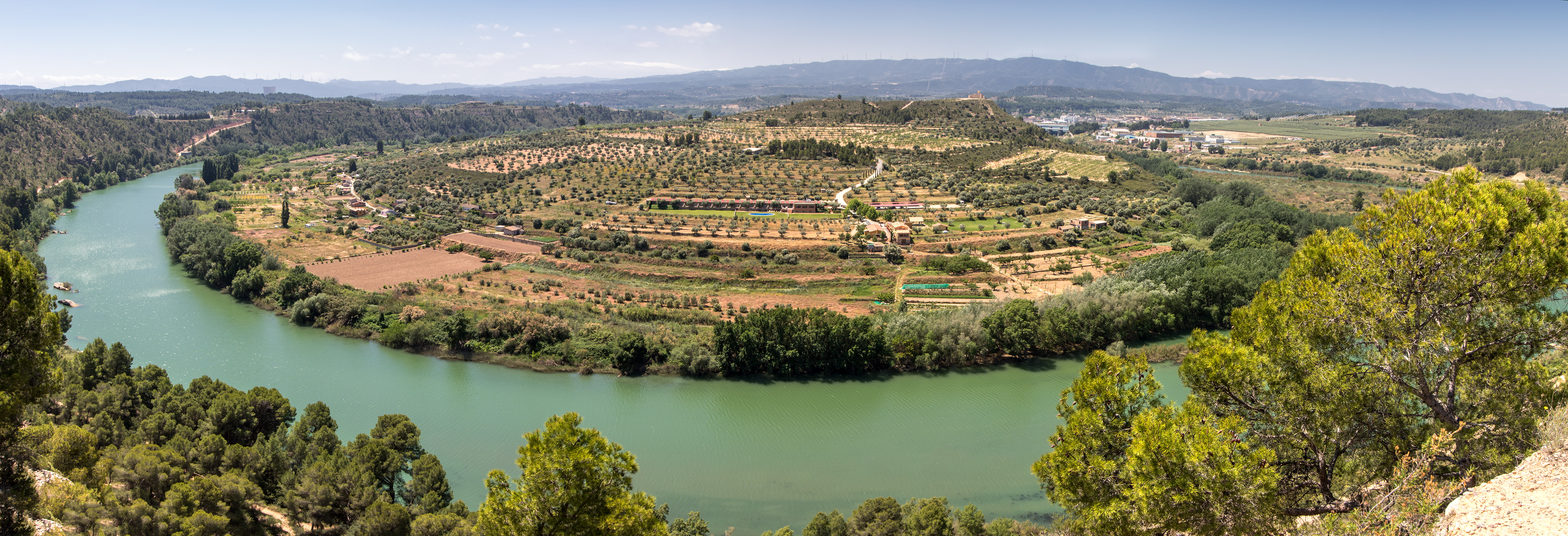 This is a photography of a Site of Community Importance in Spain with the ID: ES5140010. Natura2000 entry, EEA entry